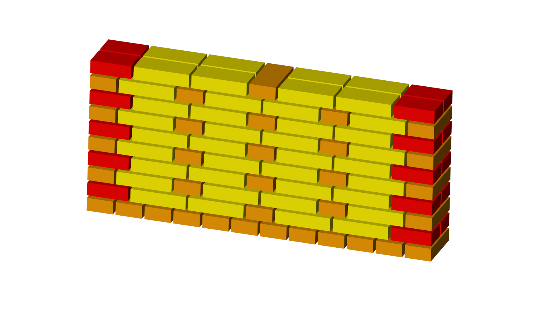 A kind of shorter Garden wall bond